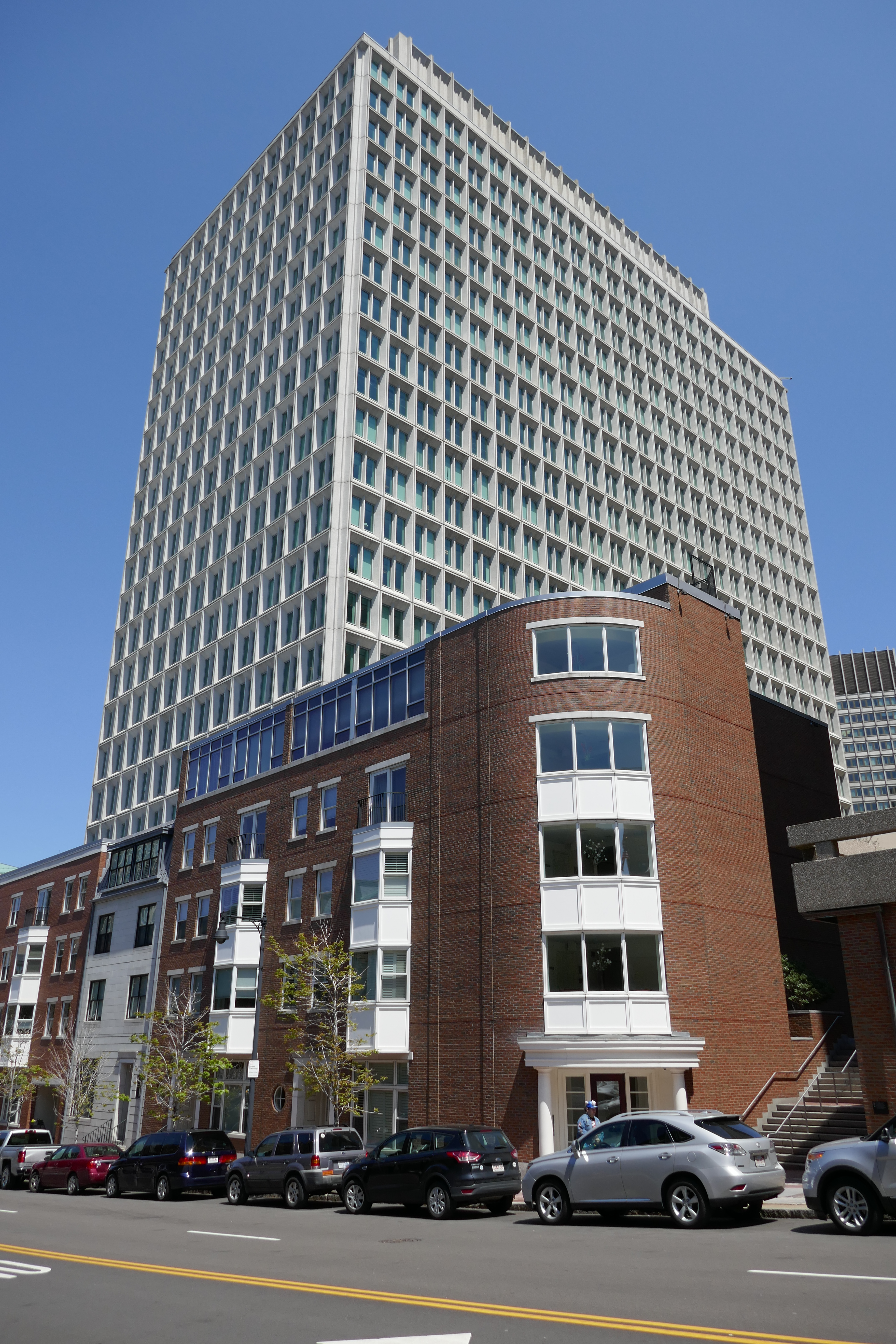 100 Cambridge Street, formerly the Saltonstall Building, with low-rise residential wing